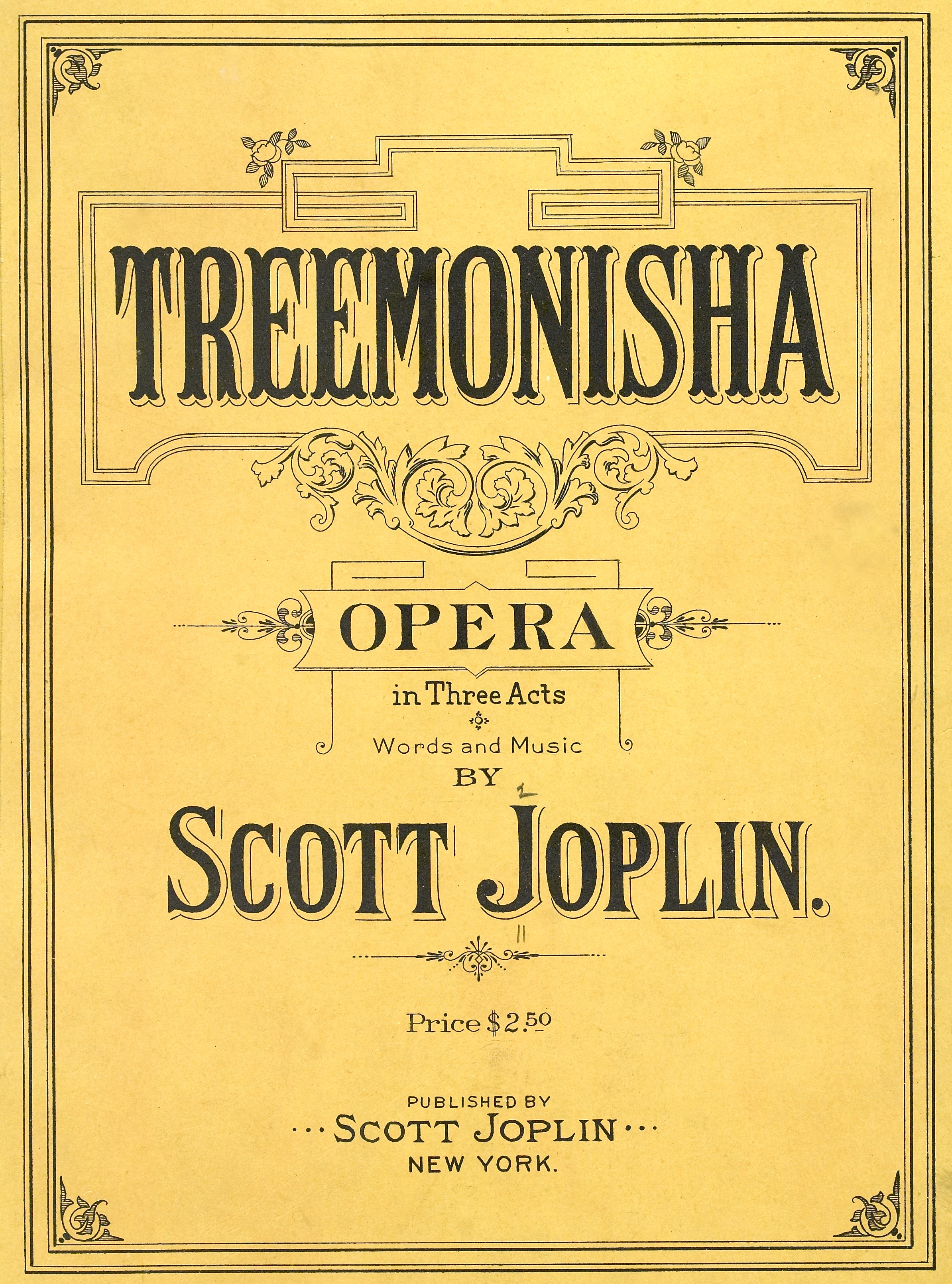 Cover of sheet music to the opera Treemonisha by Scott Joplin